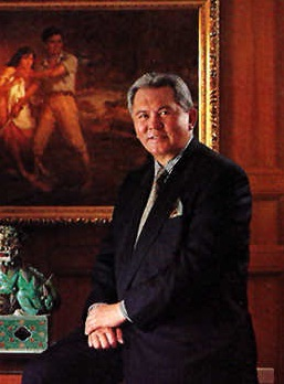 Filipino entrepreneur and guardian of historical records and philanthopy